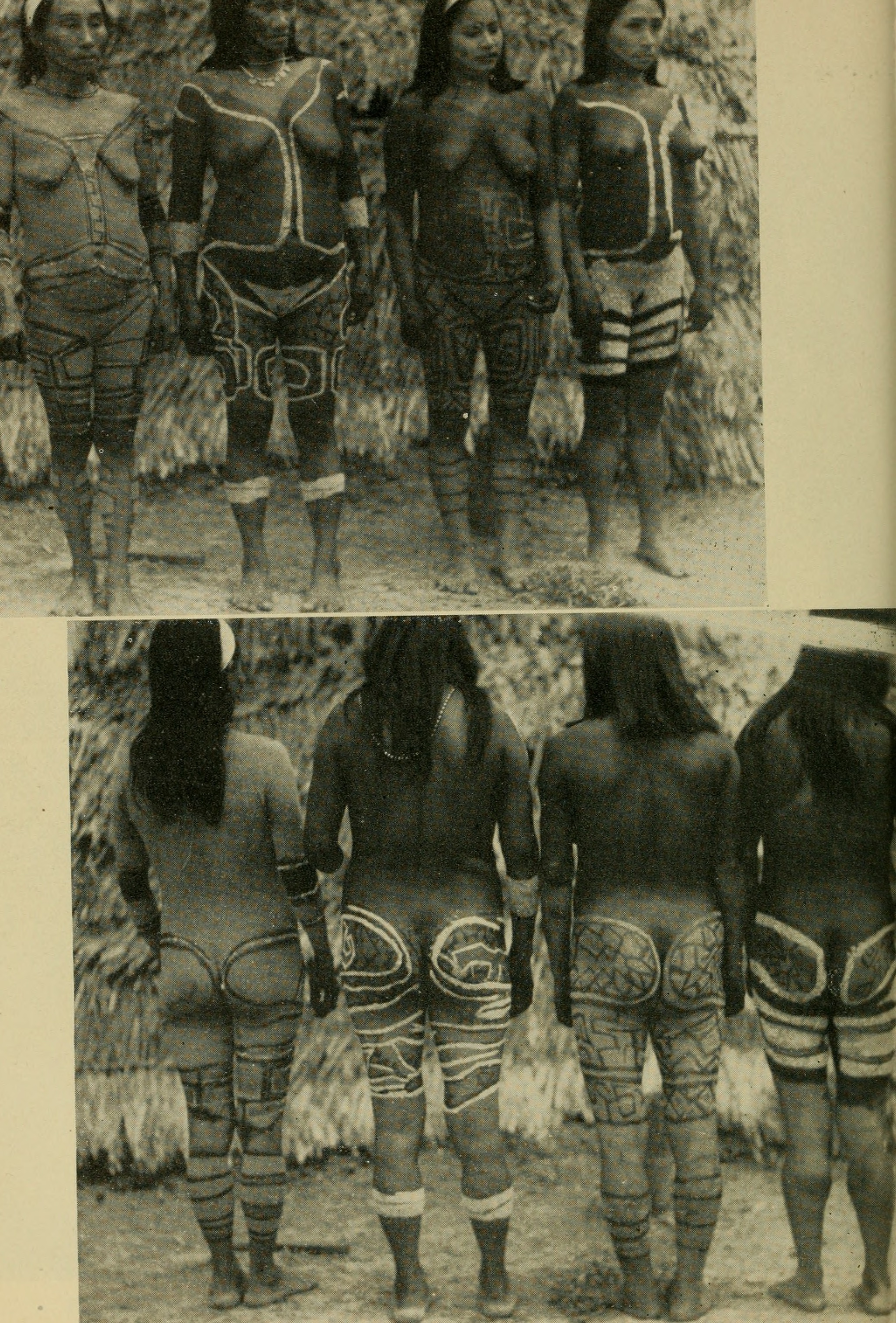 Witoto body painting Title: Bulletin Year: 1901 (1900s) Authors: Smithsonian Institution. Bureau of American Ethnology Subjects: Ethnology Publisher: Washington : G. P. O. Text Appearing Before Image: ' Text Appearing After Image: Plate 88.—Witoto body painting. (Courtesy Paul Fejos.j